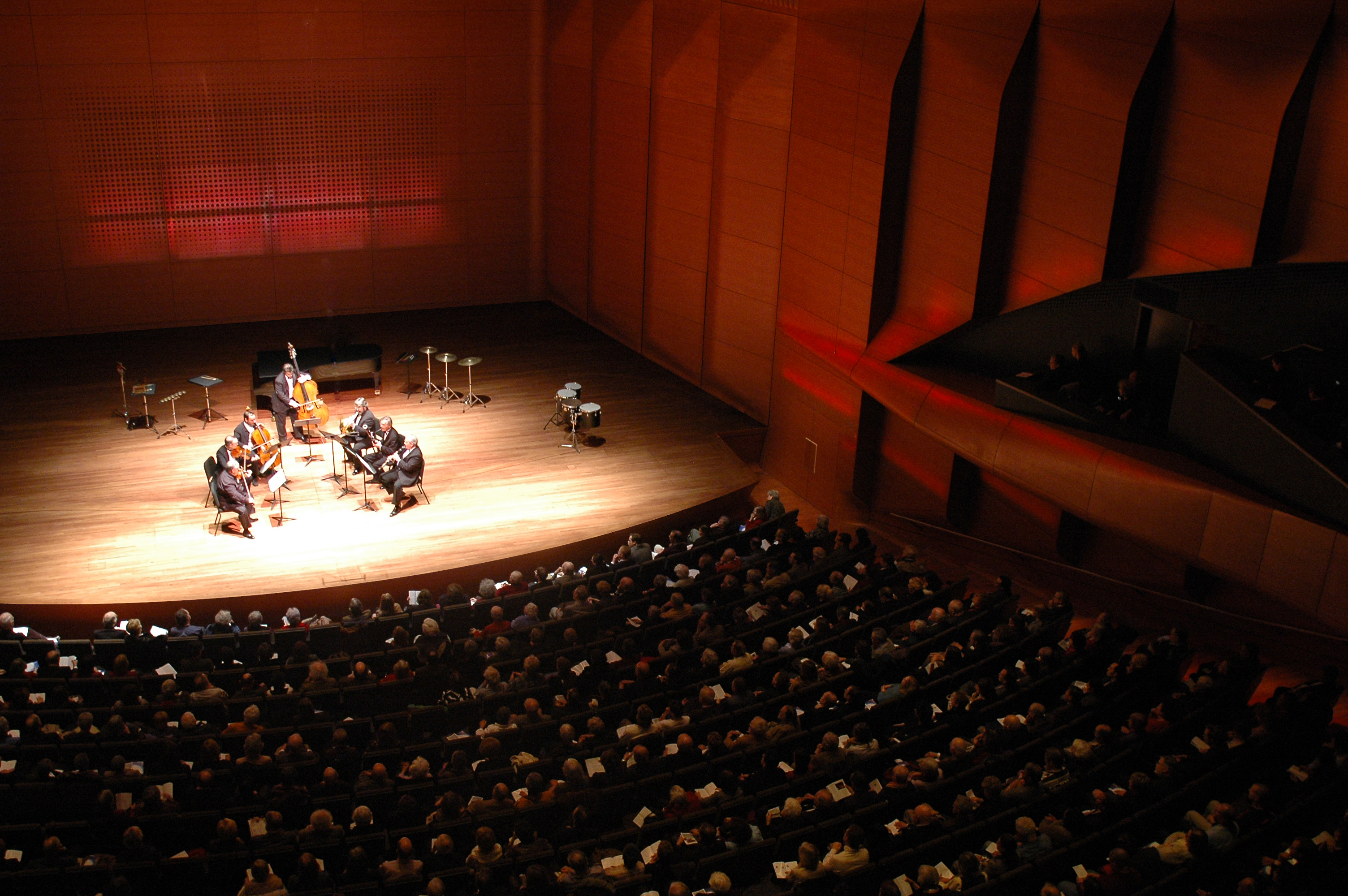 Chamber Music Society artists performing in Alice Tully Hall. Photo by Tristan Cook.